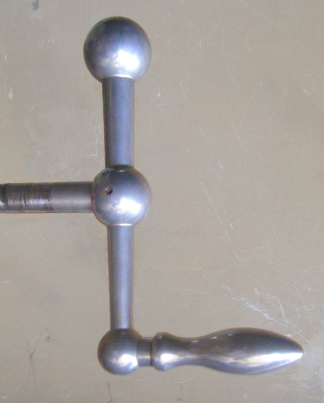 Crank